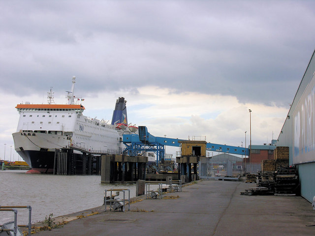 Zeebrugge Ferry Berth The berth for the overnight ferry to Zeebrugge from King George Dock, showing the passenger linkspan to the ship from the terminal building on the right. The ferry sails at 18.30 daily and arrives at Zeebrugge around 08.30 the next morning.